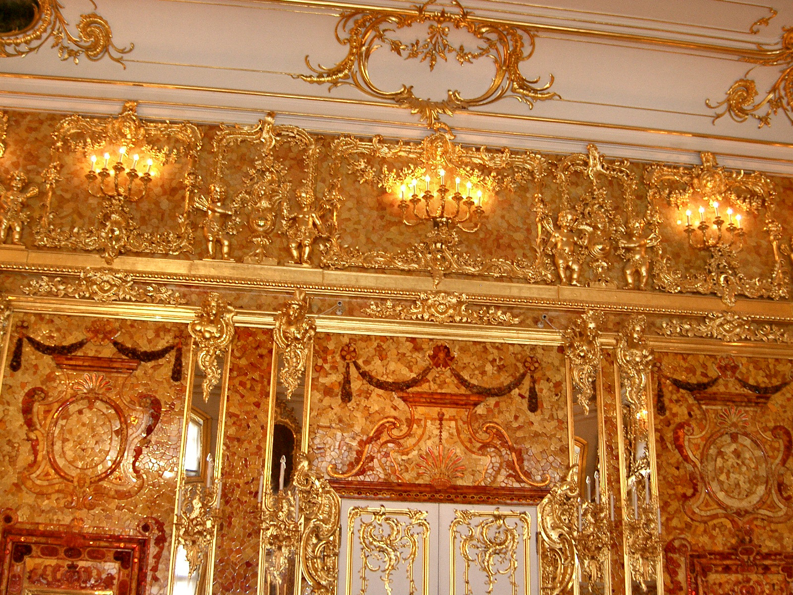 Pushkin (Russia), Amber room of the Catherine Palace